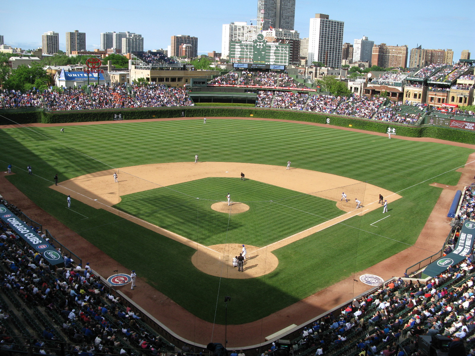 Home of the Chicago Cubs